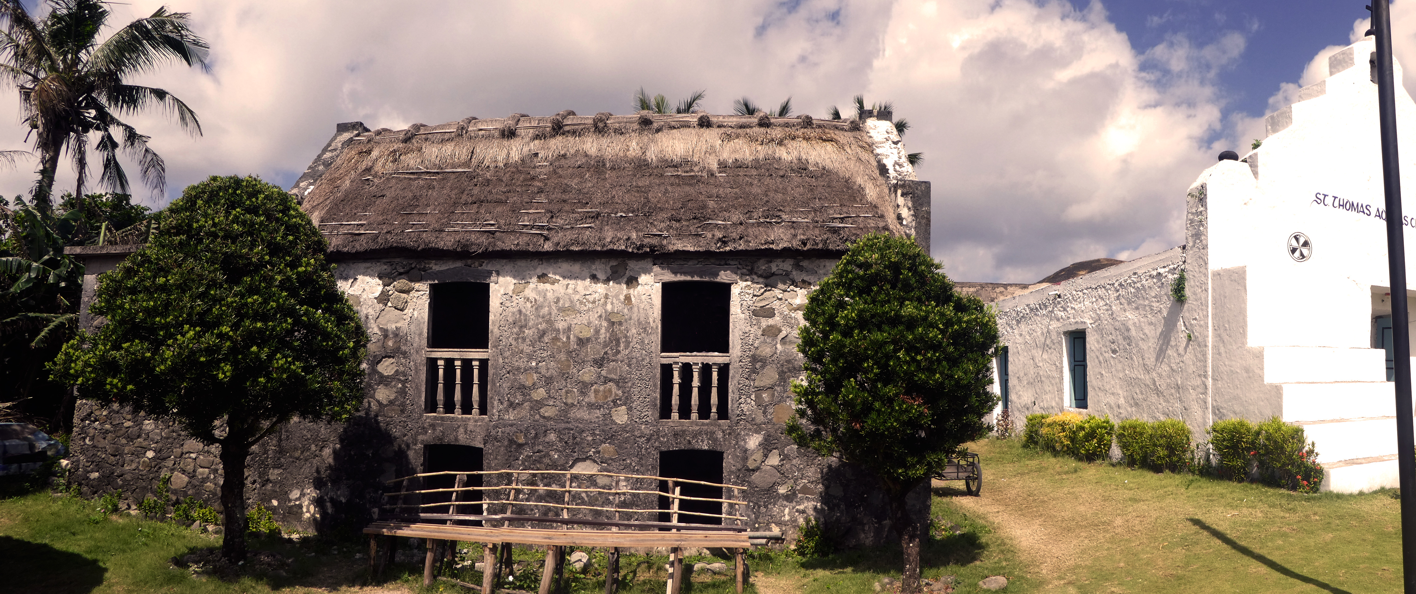 Traditional houses made of stone found in Savidug, Sabtang Island, Batanes, Philippines